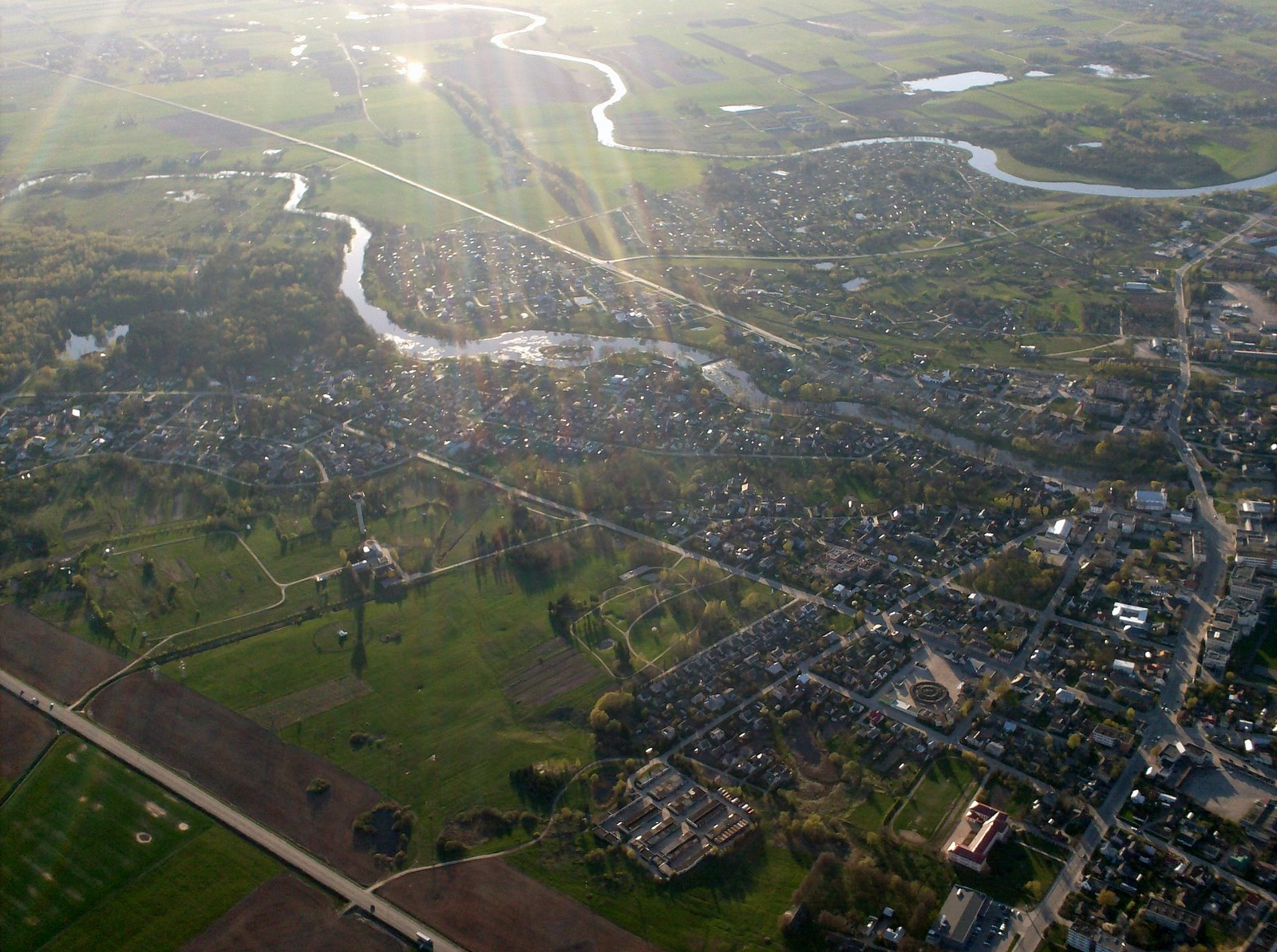 Pasvalys from top.